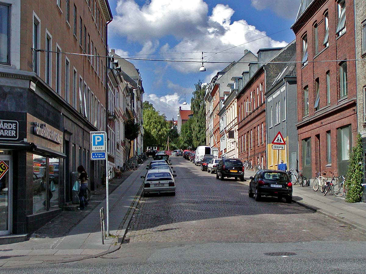 Photo of Aarhus Denmark side street